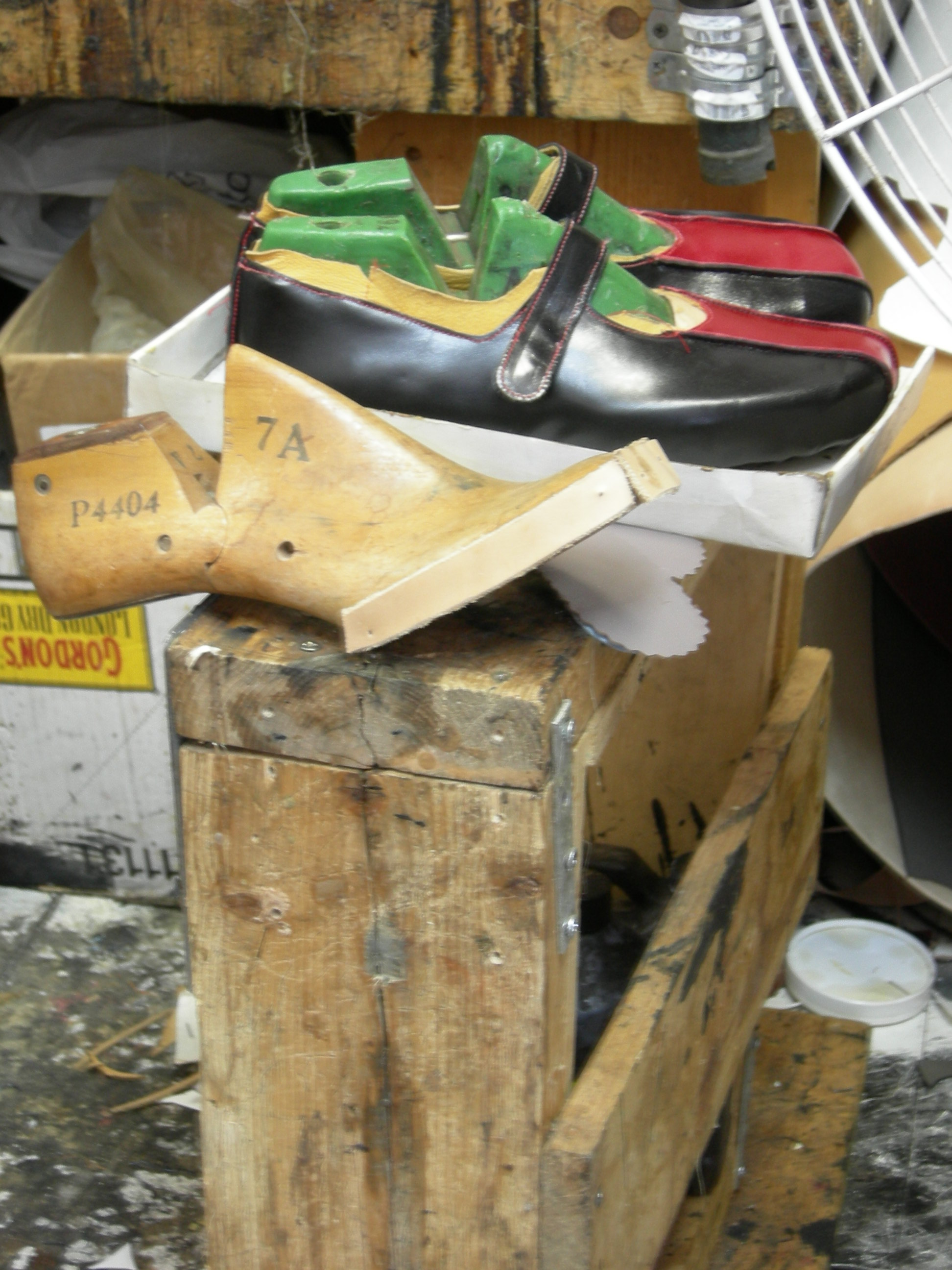 Custom shoe-lasts at Rubaiyat, "shoe artisan studio", Seattle, Washington, USA, probably the last custom shoemakers in Seattle.